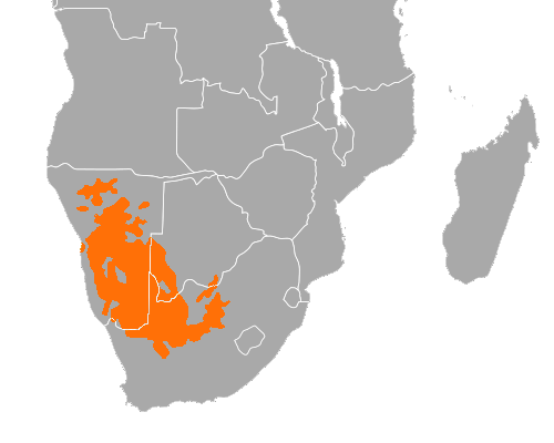 Distribution map of sociable weaver (Philetairus socius) based on IUCN data from 2014.